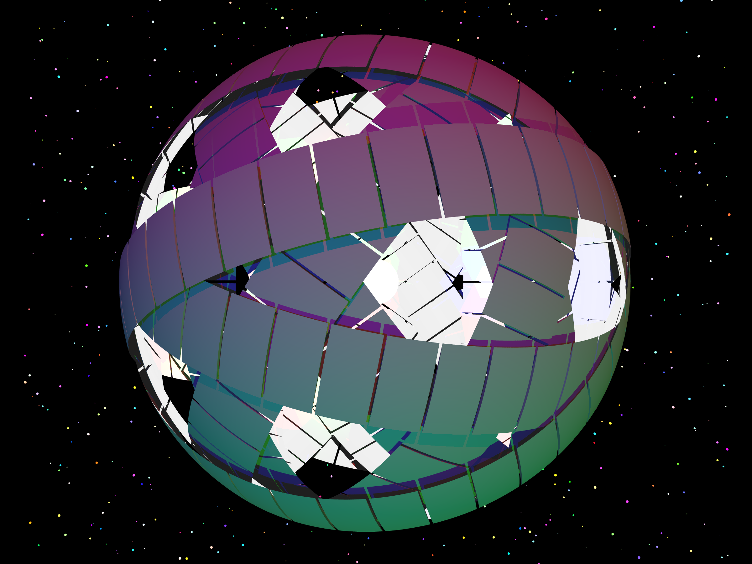 Dyson rings forming a stable Dyson swarm, but making it look as similar to a Dyson sphere and Niven ring as possible. Individual objects are unrealistically large to show their shape. Each ring can be replaced by multiple rings in this way (see also). For a stable orbit a ring can be of individual objects, or like this to save on thrusters